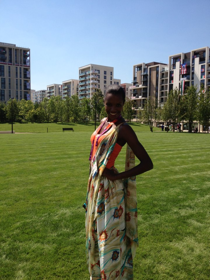 Diane Nukuri-Johnson competed in the 2012 Olympics in London. On Burundi's day in the village, Diane and her teammates dressed in traditional Burundian clothing and celebrated in the Olympic Village Square.